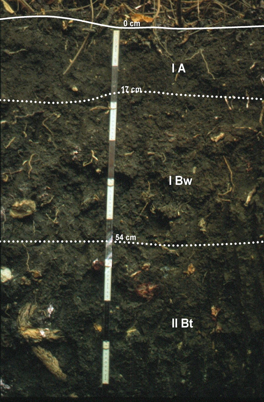 Luvic Phaeozem thapto Calcaric Regosol Luqmuts Ethiopia